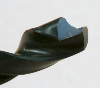 Twist drill bit tip. 16 mm diameter drill bit retailed by Dormer, UK, but made in Brazil in 2004. Photo made UK, June 2005.